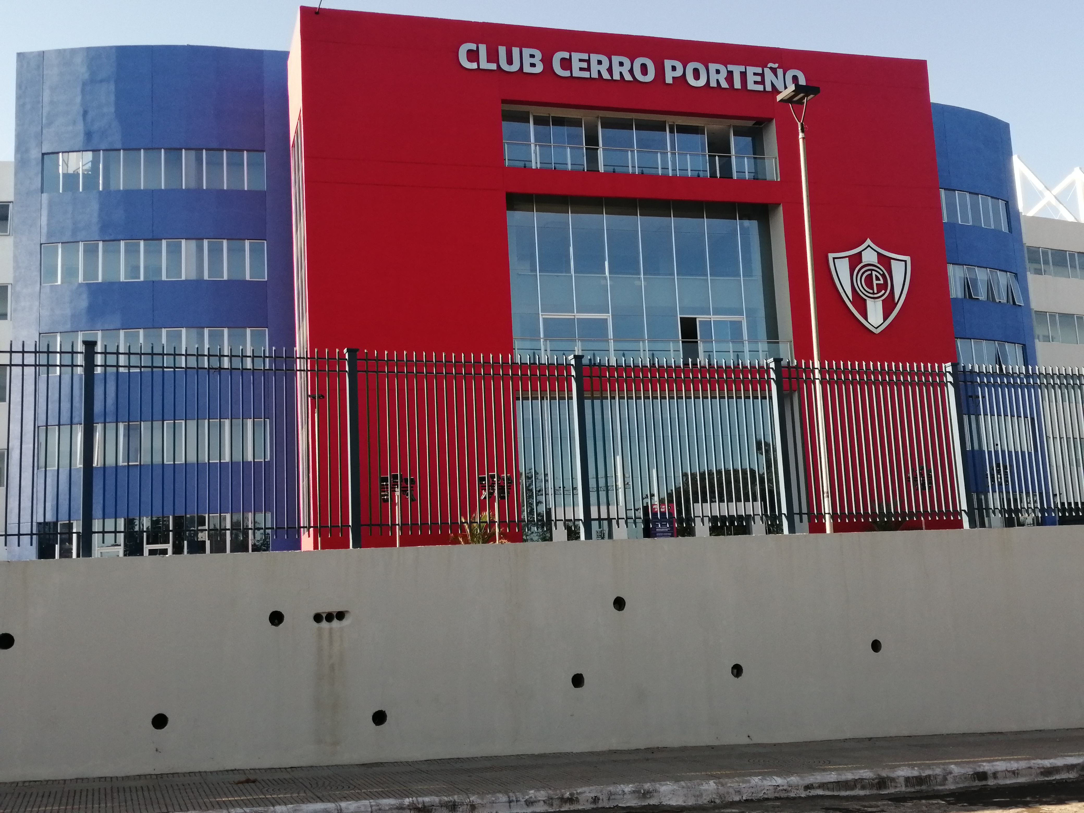 Exterior view of the General Pablo Rojas stadium, known as the Nueva Olla, of the Club Cerro Porteño in 2020